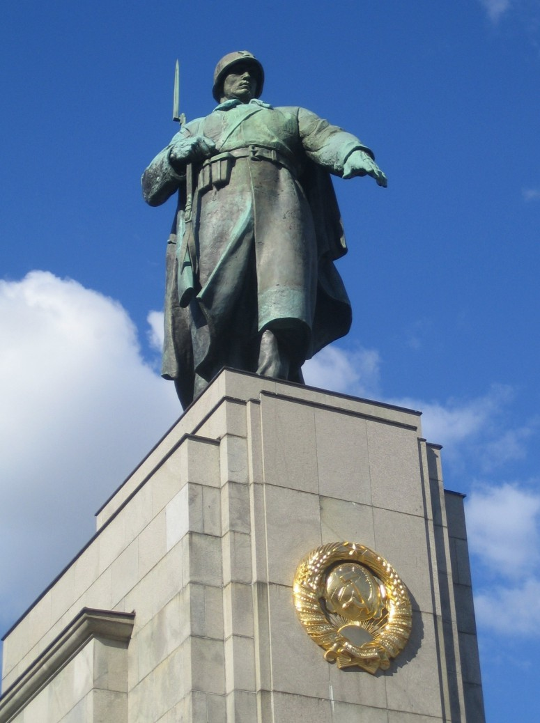 Berlin-Tiergarten, memorial for Soviet soldiers who died in Berlin in the last days of World War II. Statue of a soldier by Lew Kerbel.